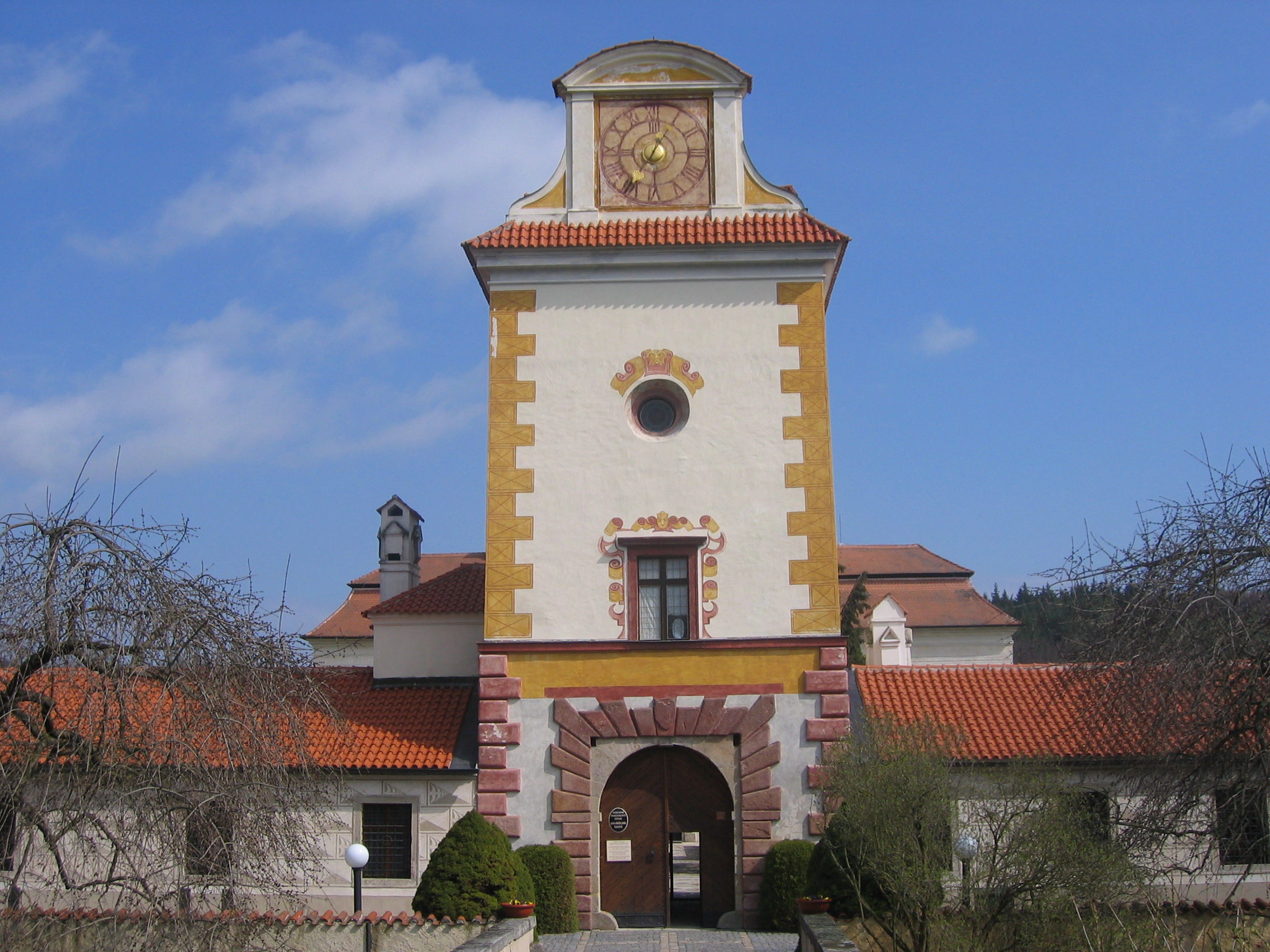 Entry Gate to the Castle Kratochvíle,South Bohemia Region, Czech Republic